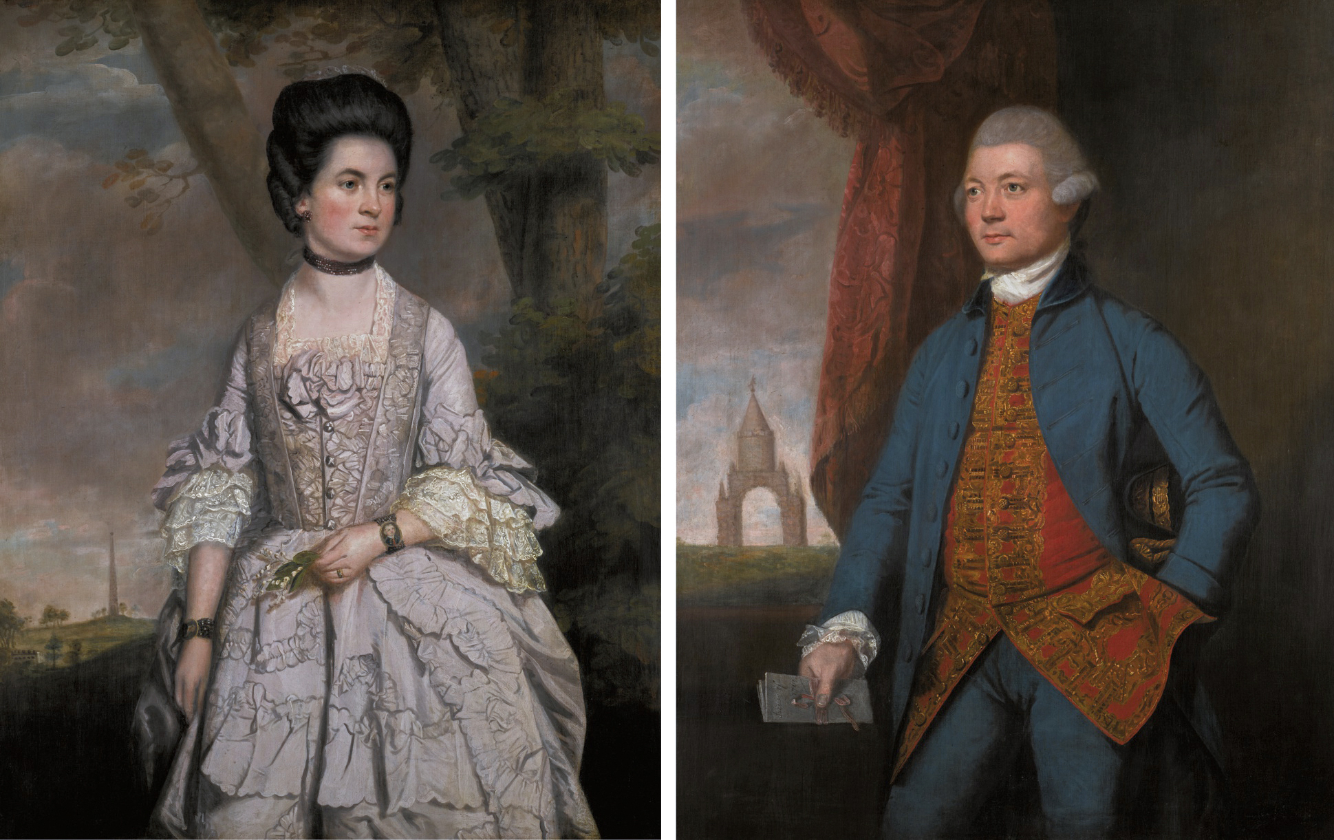 John Newman (d. 1799), of Barwick Park, Yeovil and his wife, Grace Newman, née Hoskins oil on canvas 129 x 103 cm 1768